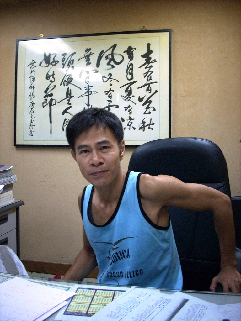 Cowman (Hong Kong Comicer) photo in Summer 2011